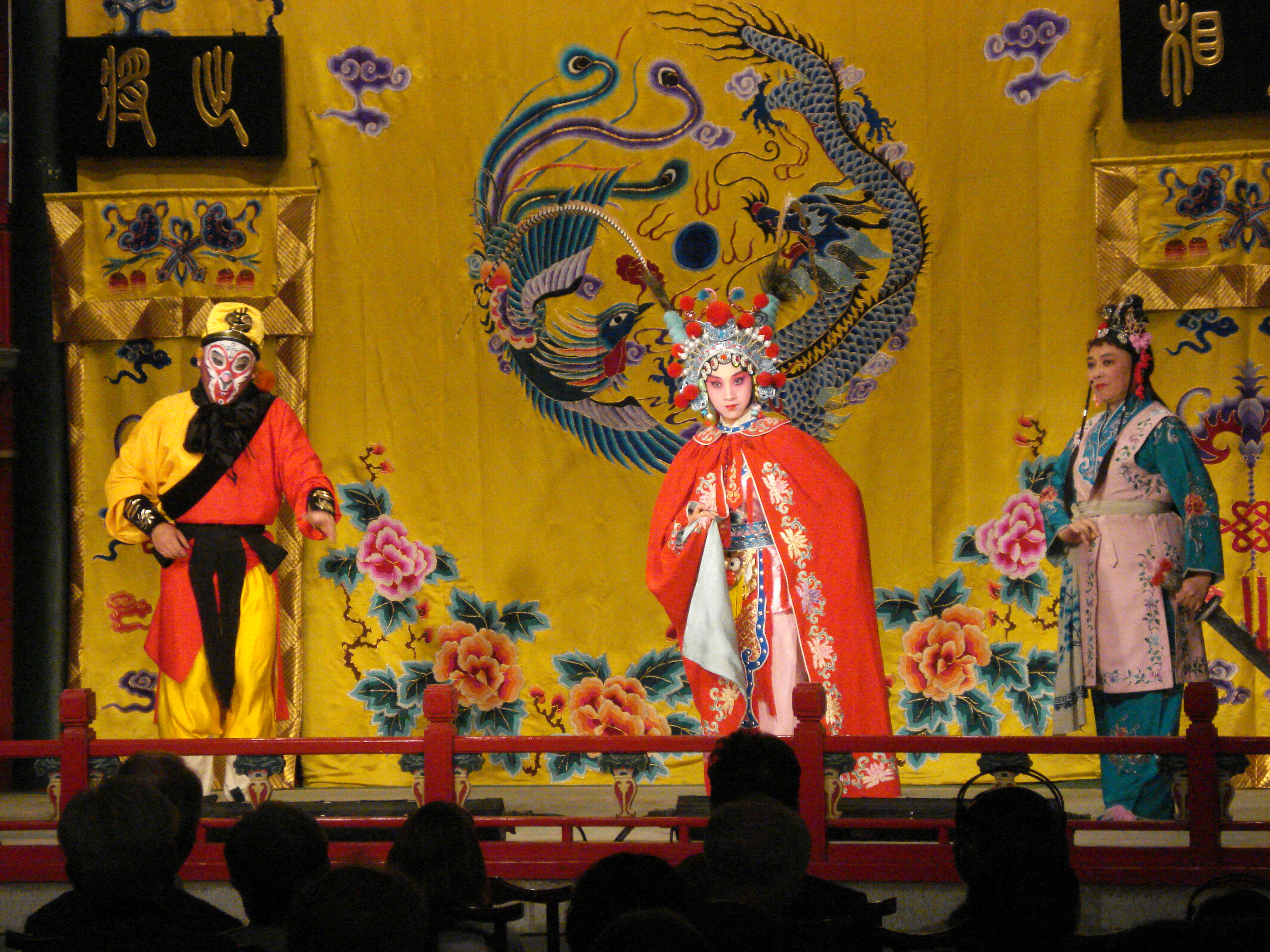 Bejing: traditional Chinese theatre